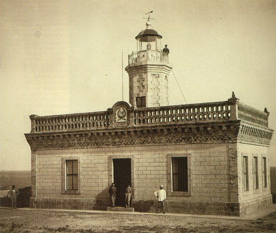 North Facade HAER PR,37-CARN,1-1. Faro de Guánica. Guánica, Puerto Rico